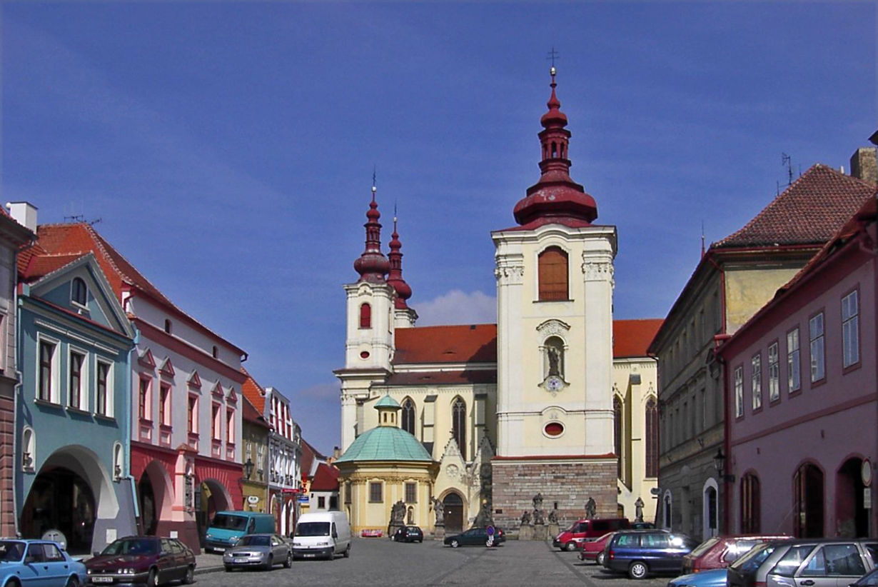 The Assumption of the Virgin Mary church in Žatec, Czech Republic.